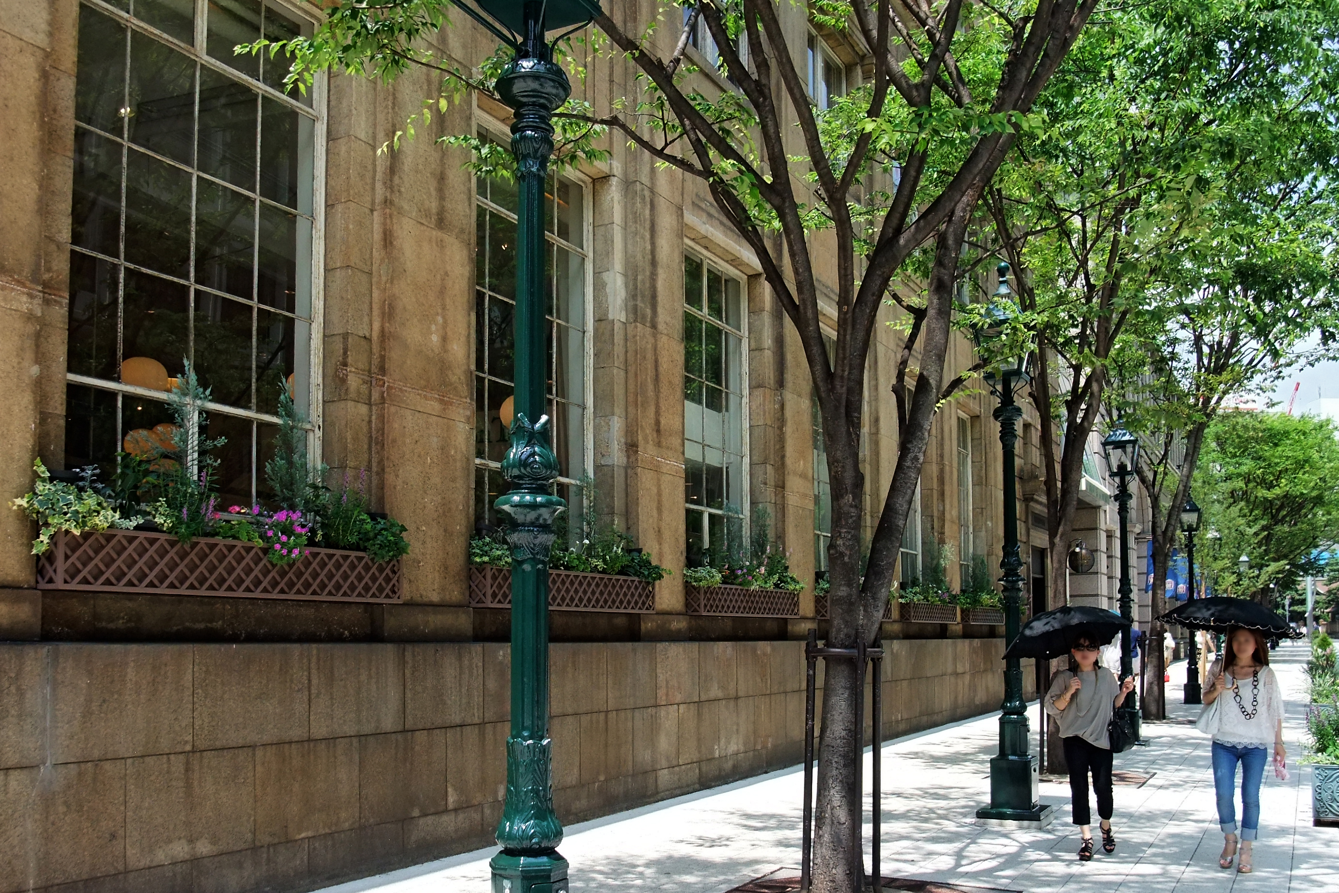 at Former Foreign Settlement of Kobe (Kyukyoryuchi) in Kobe, Hyogo prefecture, Japan.